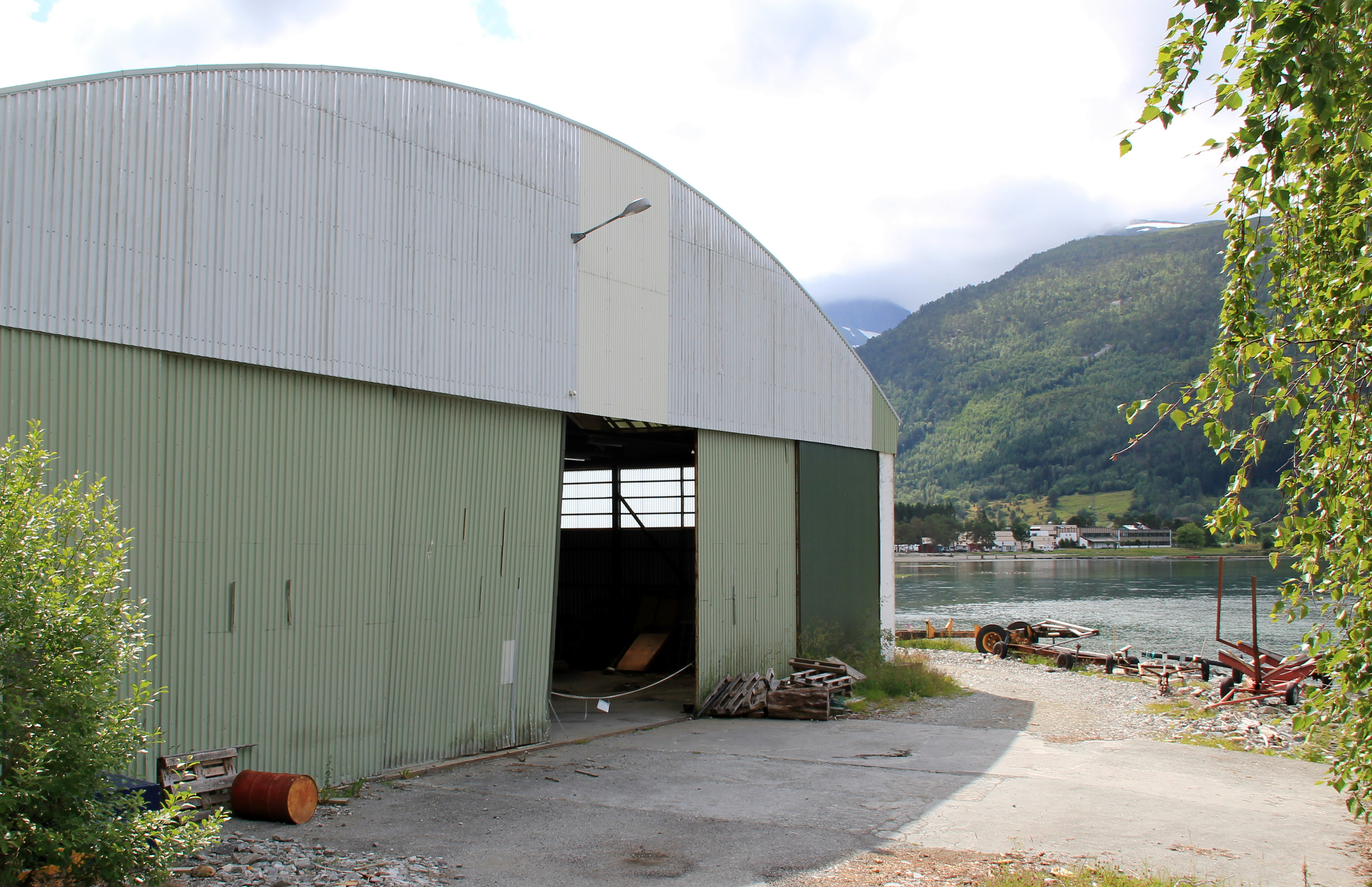 Aircraft hangar of former Fjordfly, a Floatplane company in Sandane Norway